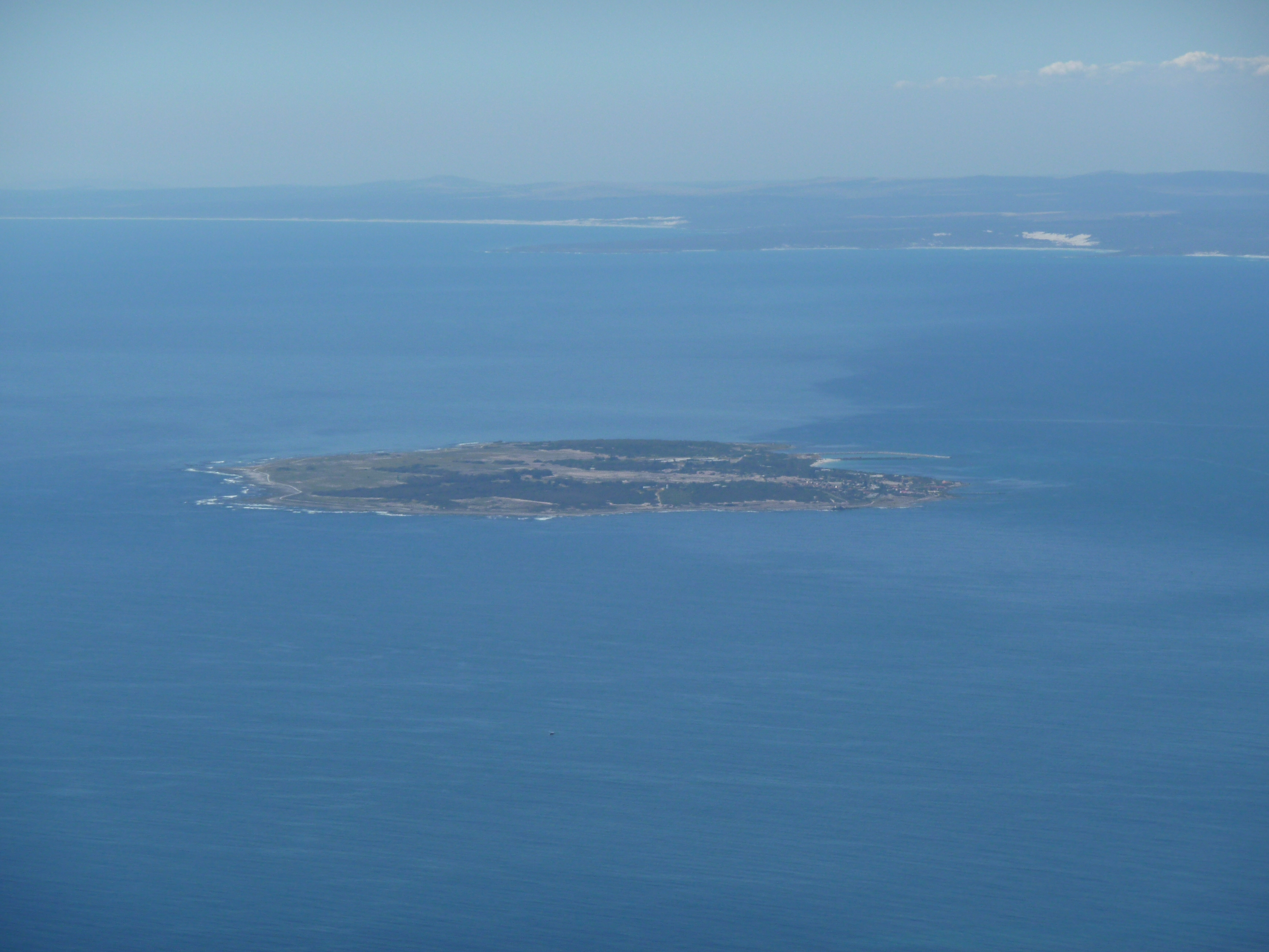 Robben Island as seen from Table Mountain This media shows a South African Protected Site with SAHRA file reference 9/2/018/0004.